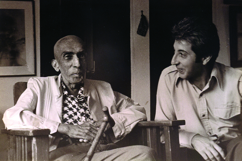 Veracruz, México, circa 1993